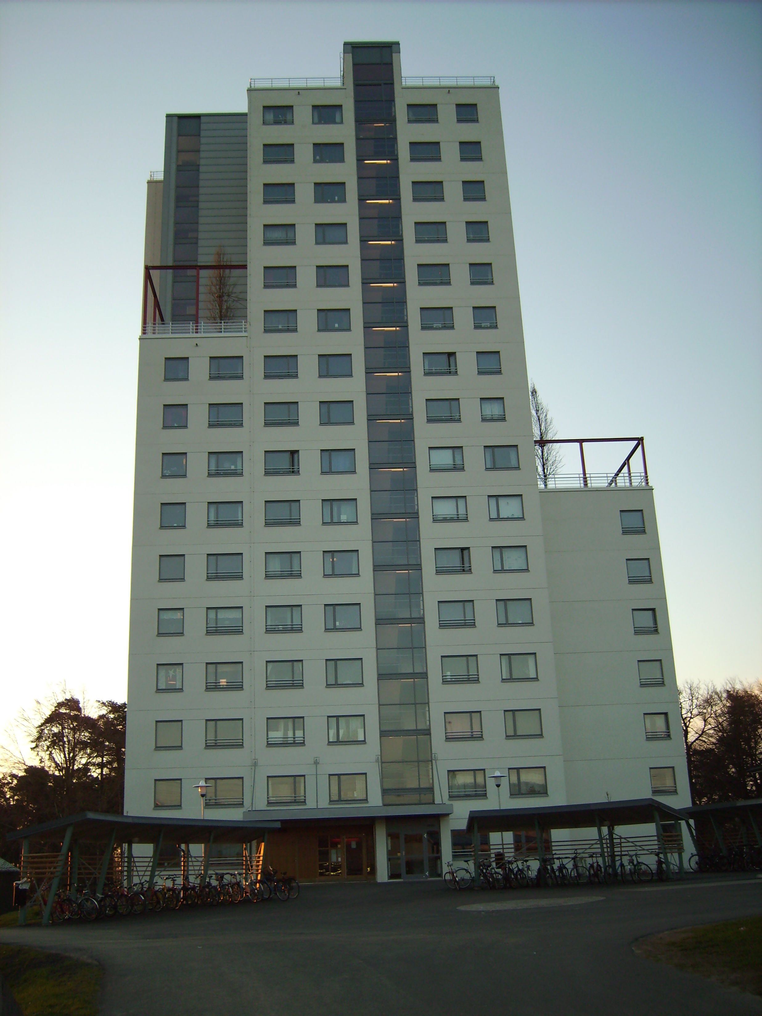 Photo by Harri Blomberg.